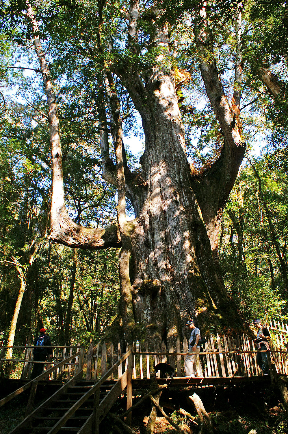 Smangus Formosan Cypress(Chamaecyparis formosensis) 司馬庫斯神木（紅檜）